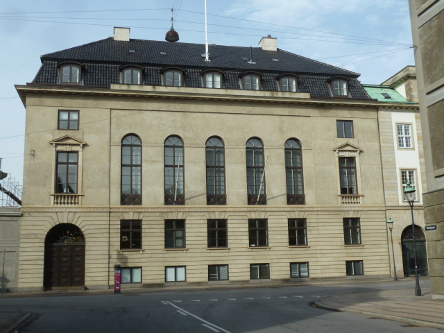 Danmarks Rederiforening's Building on Amaliegade in Copenhagen, Denmark